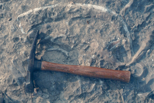 Photo showing a large rugose or horn coral in the Jeffersonville Limestone at the Falls of the Ohio near Louisville, Kentucky. Photo by James Stuby, 1999.